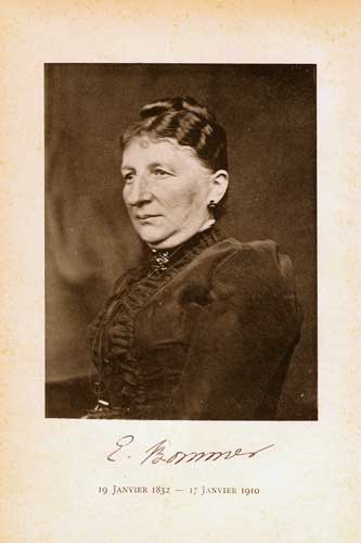 Portrait of Elisa Caroline Bommer née Destrée (1832-1910), Belgian botanist, wife of J.E. Bommer, from Bulletin de la Société royale de Botanique de Belgique, Bruxelles [Brussel], volume 47, pp. 256-261. Collotype photograph, 138 x 207 mm.